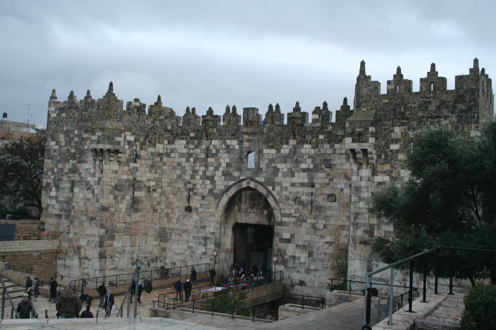 Damascus Gate to the old city of Jerusalem